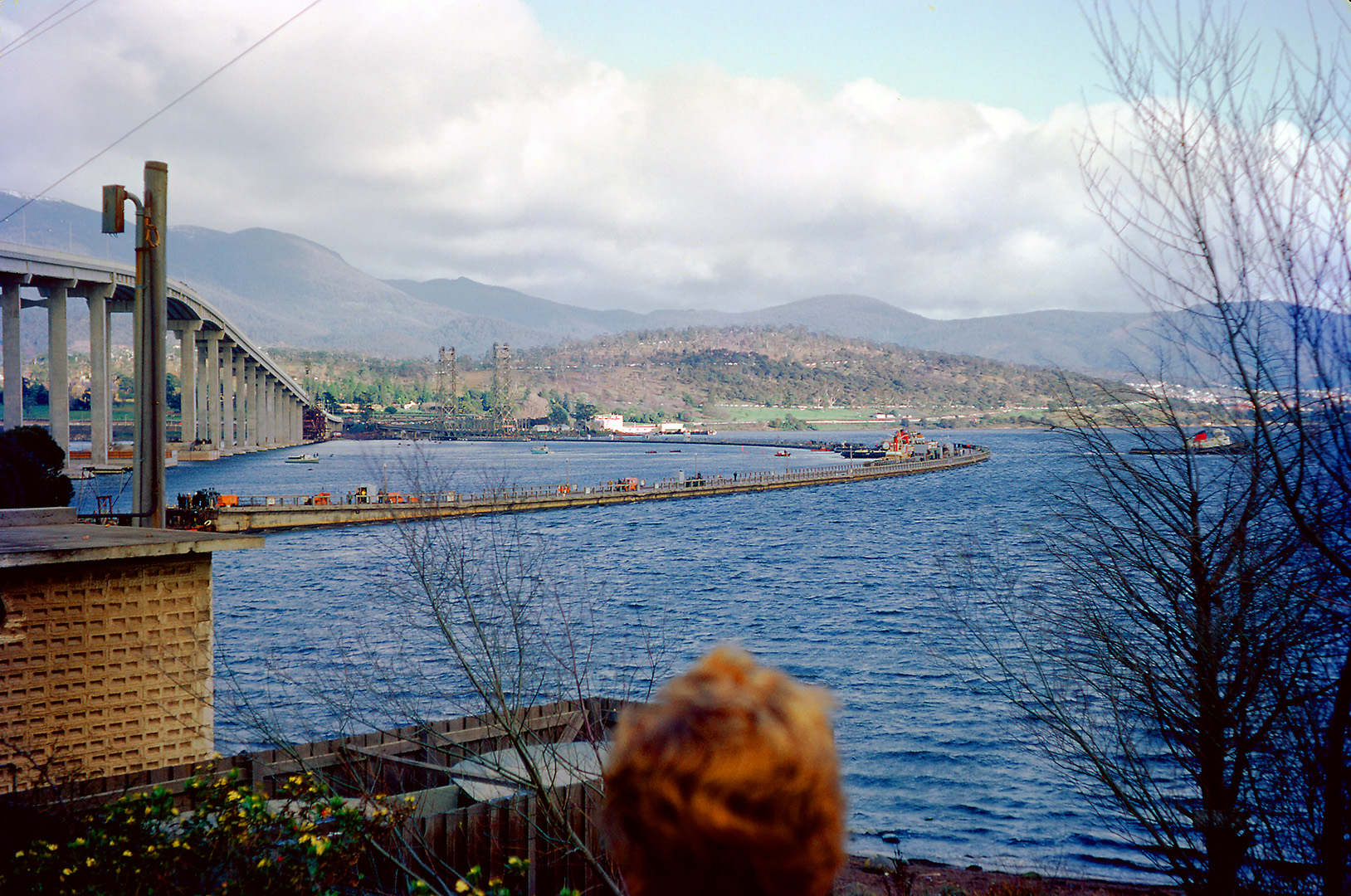 Now separated in the middle, the eastern half is ready to be towed up-river to its final resting place in Gielston Bay. The new Tasman Bridge can be seen on the left. The steel towers at the far end of the old bridge are lift towers that raised a section of the bridge to allow ships to navigate up-river (to the Zinc Works, for example).